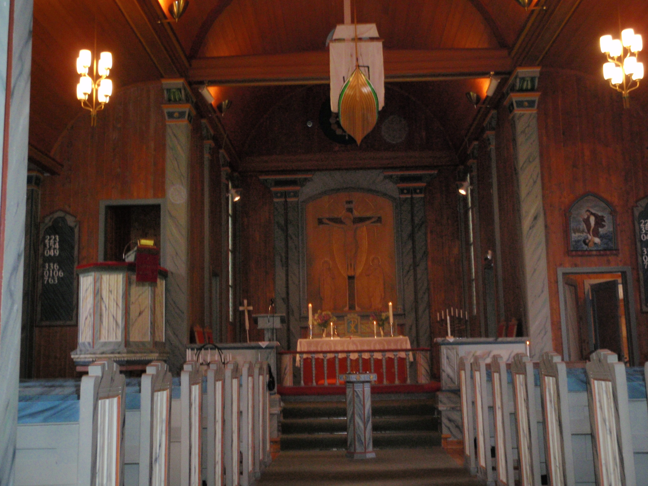 inside the church og Elsfjord, Vefsn